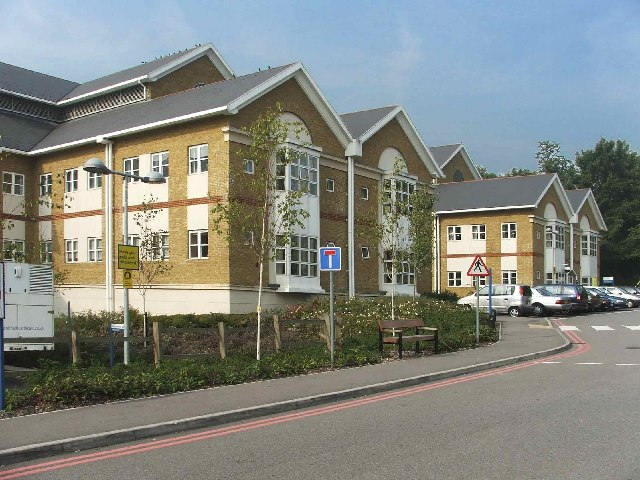 Barnet Hospital, Wellhouse Road, Chipping Barnet. The newly-built (or should I say re-built) Barnet Hospital is part of the Barnet & Chase Farm NHS Trust.